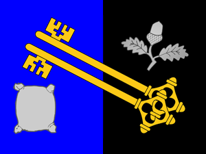 A slightly altered version of the flag for use by WikiProject Surrey - The County Flag of Surrey, a banner of arms of Surrey County Council consisting of: "Two halves, blue and black. The blue and also the gold colour in the design are taken from the arms of the Warrennes, the first Earls of Surrey; the black derives from the Arms of the towns of Guildford and Godalming. The interlaced gold keys which lie across the shield diagonally represent the power of the ancient Abbey of St Peter at Chertsey which once held extensive lands in Surrey. The keys form part of the Arms of the Diocese of Winchester - which used to include much of Surrey - and have also been retained in the Arms of the Diocese of Guildford. The sprig of oak symbolises Surrey's extensive rural areas and is drawn from the Badge of the FitzAlans, former Earls of Surrey. It also appears in the mouth of the Supporters of the Arms of the Duke of Norfolk, the present Earl of Surrey. The woolpack recalls the importance of the wool trade in medieval Surrey and acts as a reminder of the ancient wealth of the County."